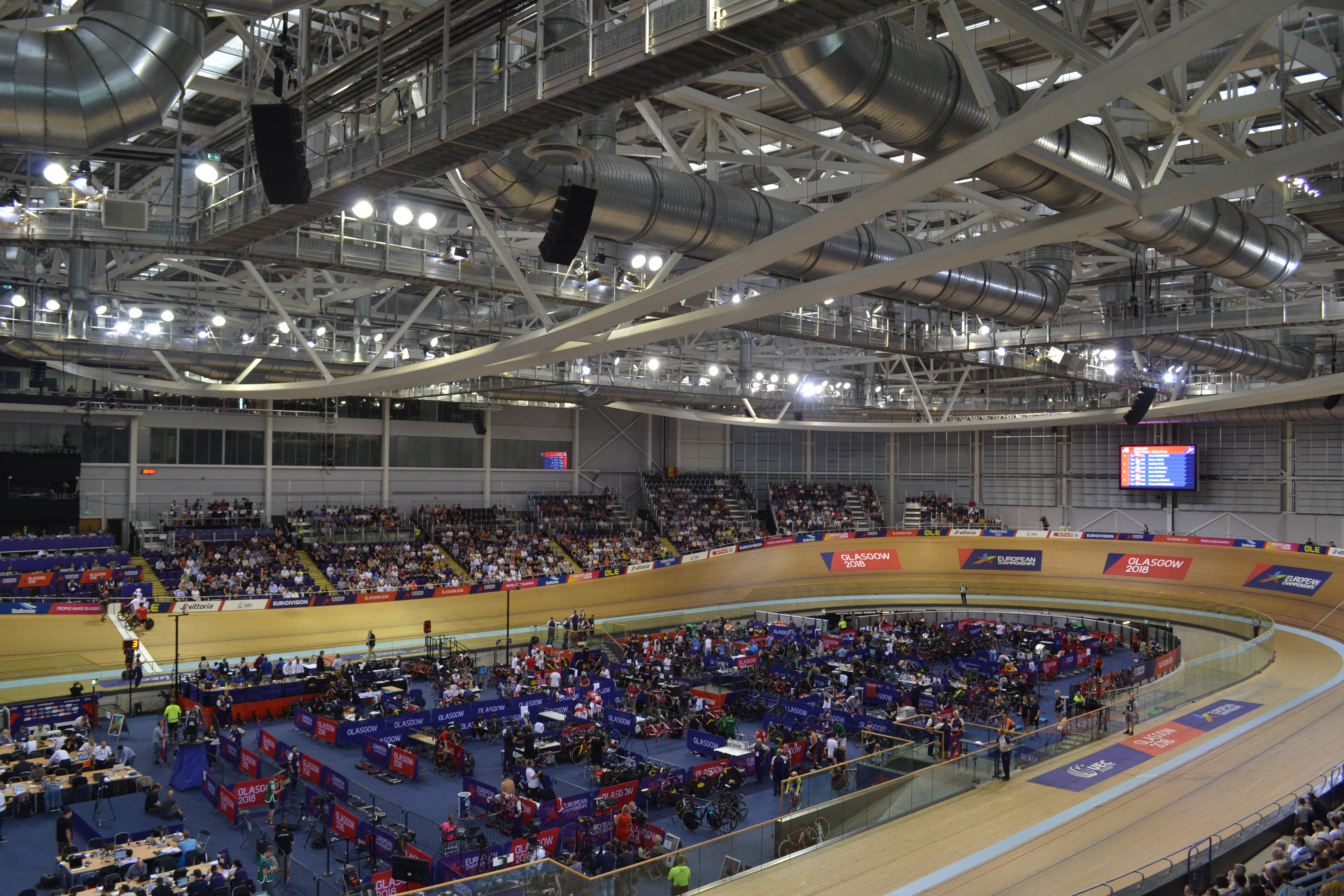 2018 UEC European Track Championships